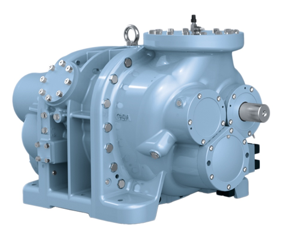 Picture of a Screw Compressor